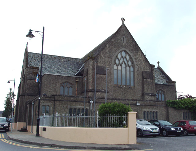 Foxford Convent Chapel